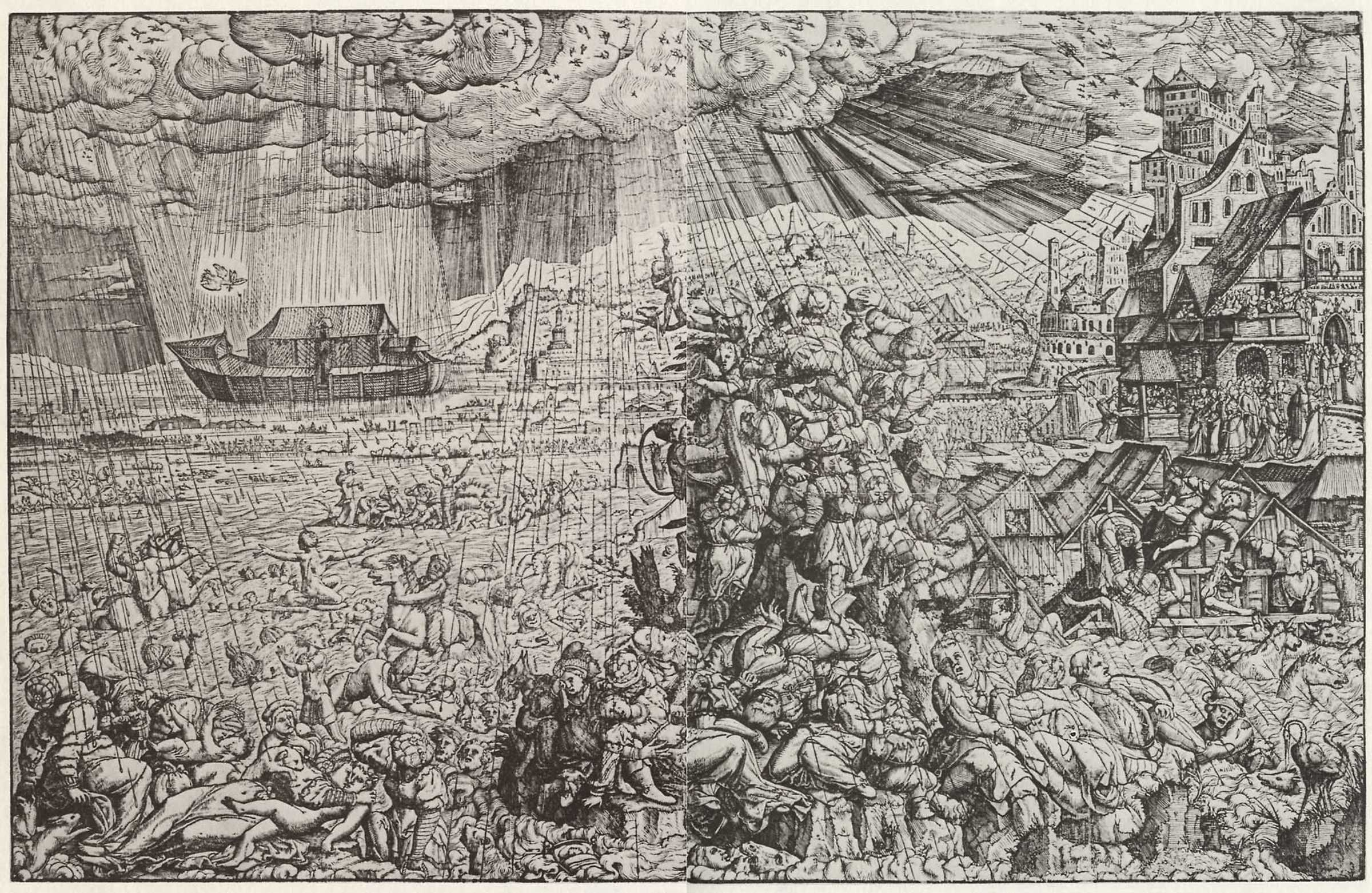 The Flood, Melchior Lorck, 1550-1551